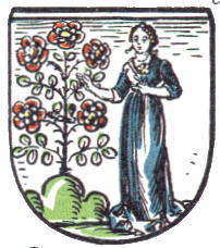 Old COA of Susz (Rosenberg in Westpreußen)